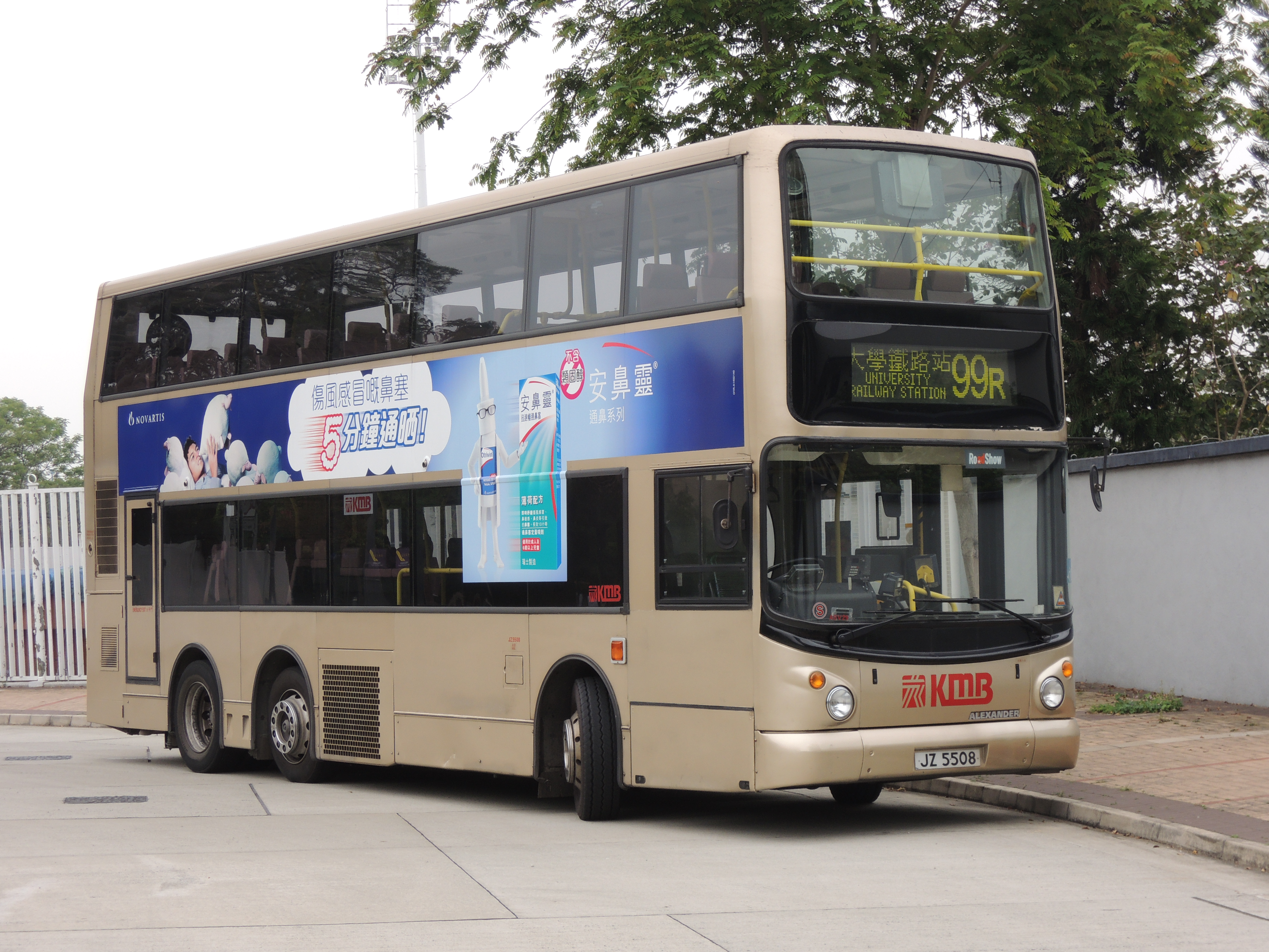 KMB Route 99R (Sai Kung North Public Transport Interchange)中文（香港）: 九龍巴士99R線 (西貢北公共運輸交匯處)